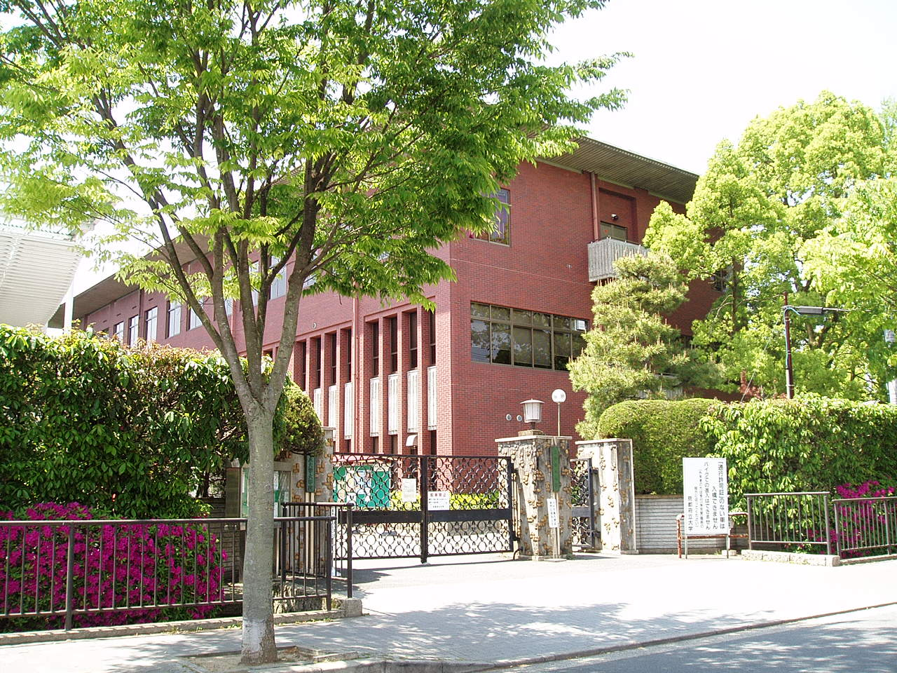 The main gate of Kyoto Prefectural University. Located in Sakyō-ku, Kyoto.